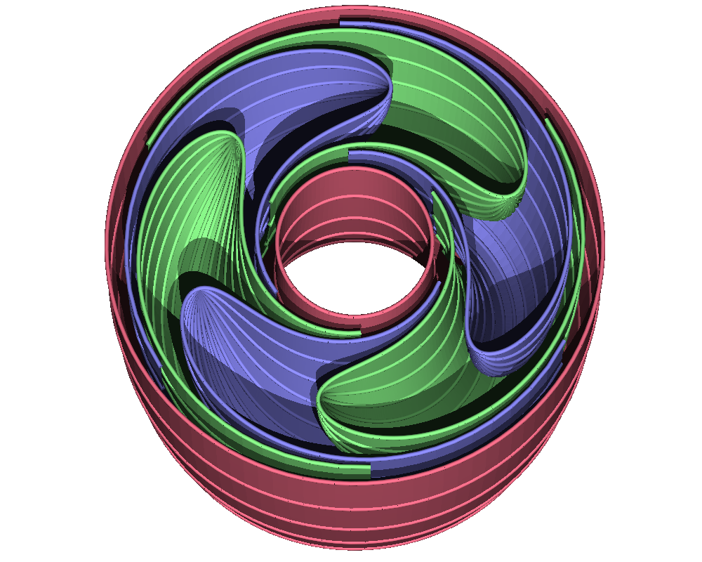 Reeb foliation, generated with gnuplot and POV-Ray (see details below)